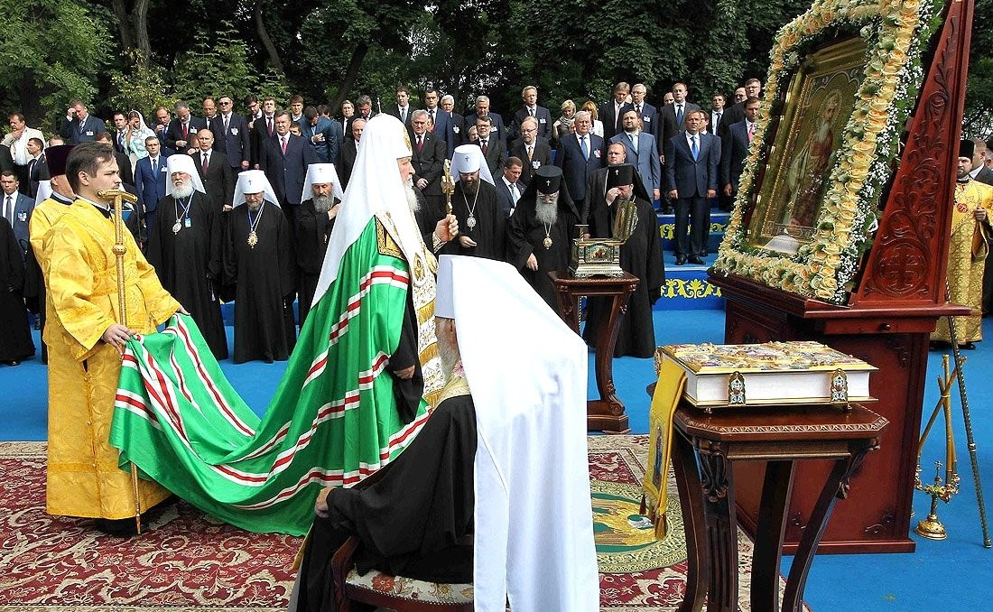 Pariarch Kirill of Moscow celebrating in Kiev a moleben on 1025 anniversary of christianization of Rus'